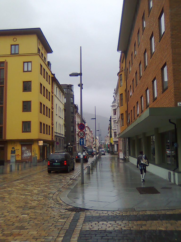 Håkonsgaten, a street in Bergen, Norway.